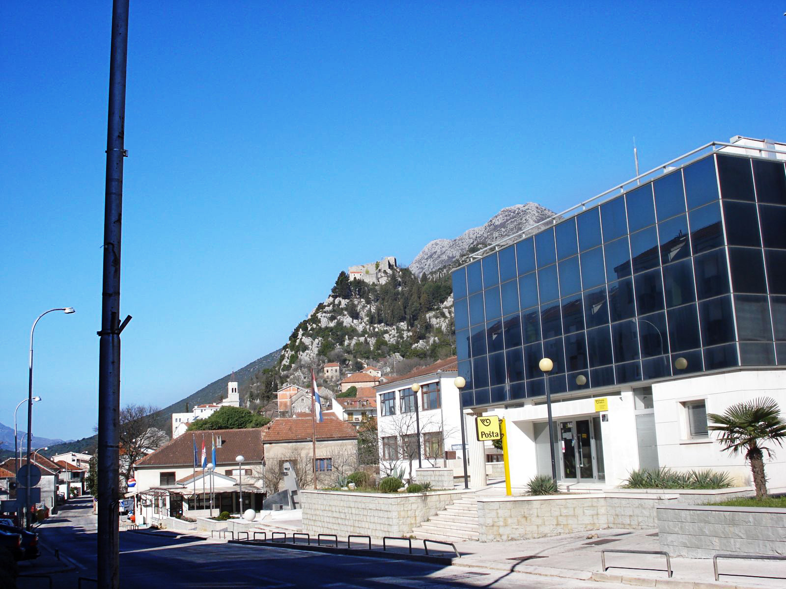 Vrgorac, a city in Croatia.